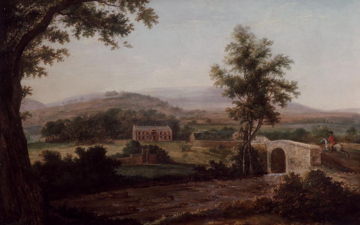 A painting from the Framed Works of Art collection at the National Library of wales.